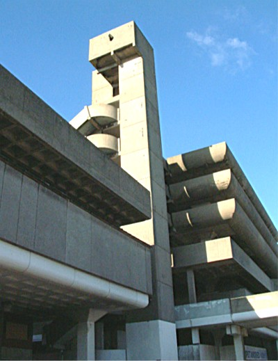 Photo of the Tricorn Centre. Taken from Reflections on the Tricorn, RetroWow. URL accessed on May 11, en:2006.